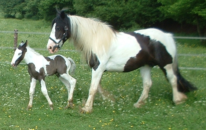 Gypsy vanner mare with colt Das Eigenfoto aus 2003 zeigt unsere Hauptstammbuchstute Alabama mit dem Hengstfohlen Connor.